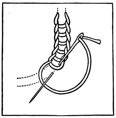 Embroidery stitches: open chain stitch